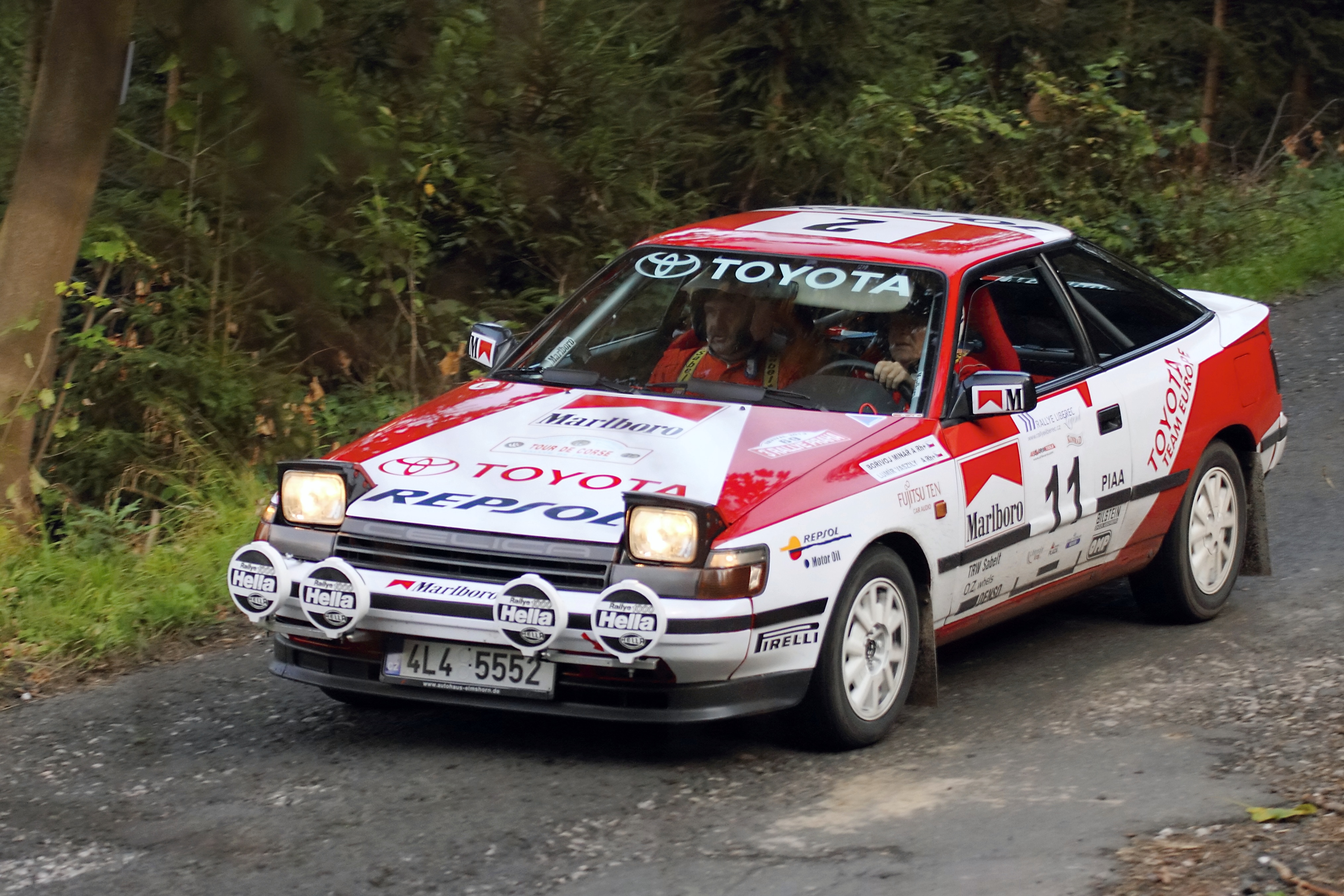 Replica of Carlos Sainz's Toyota Celica GT-Four ST165 ,2013 Rallye Legend Liberec